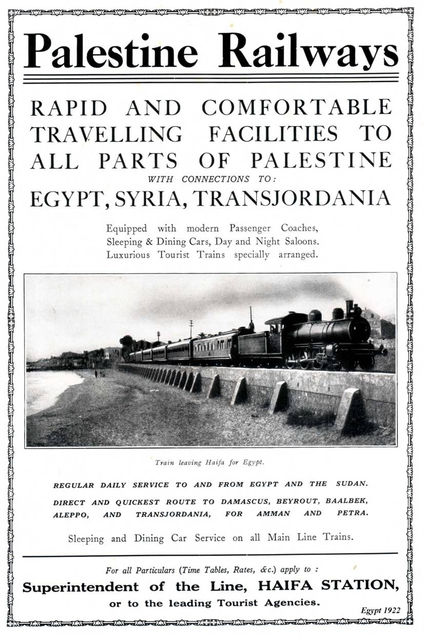 Poster published by Palestine Railways in 1922